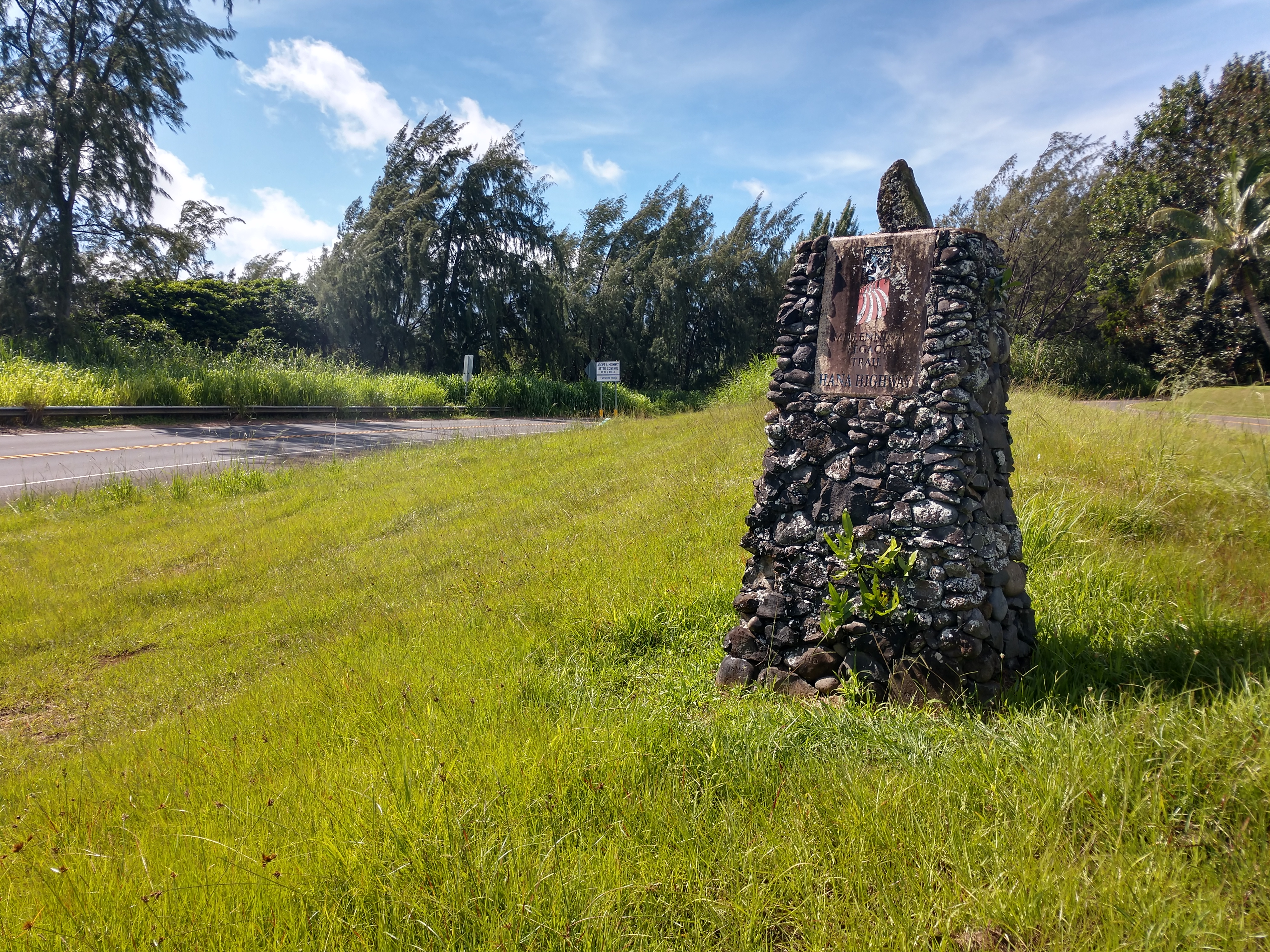 Hana Highway Millennium Trail monument at the junction of Route 36/360 and 365, with a view of Route 360 (left) and Route 365 (Kaupakalua Road, Right). Route 36 is behind the photographer. Just under the "Adopt a Highway" sign in the background hidden by overgrown grass and bent over is the zero-mile marker for Highway 360. NRHP #01000615.